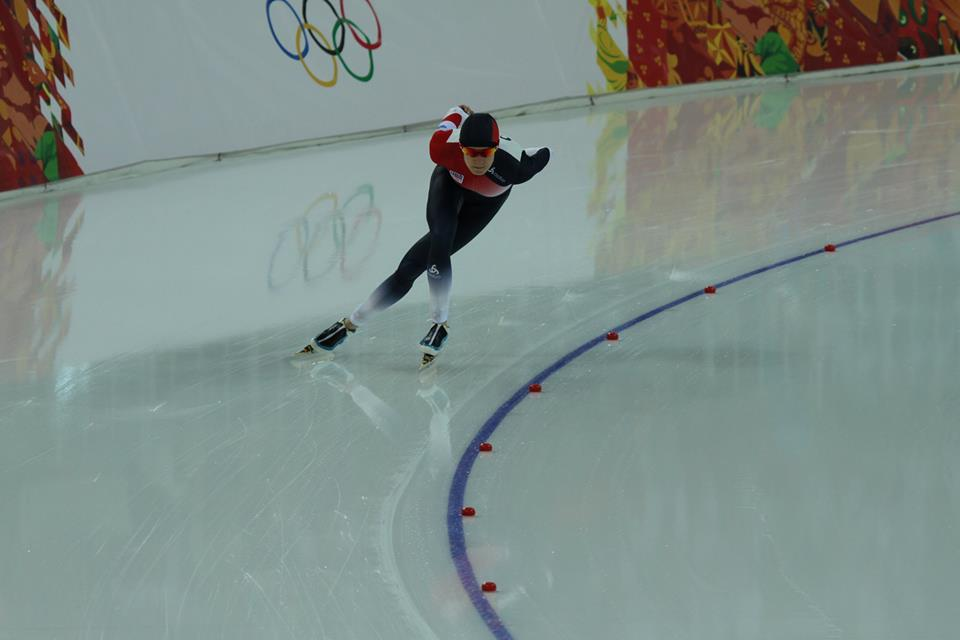 Women's 3000m, 2014 Winter Olympics, Martina Sablikova Silver medalist